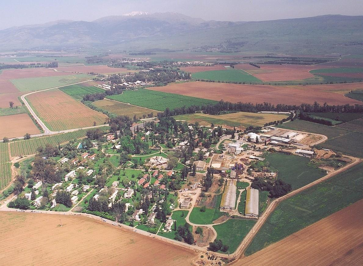 Neot Mordechai from the air.